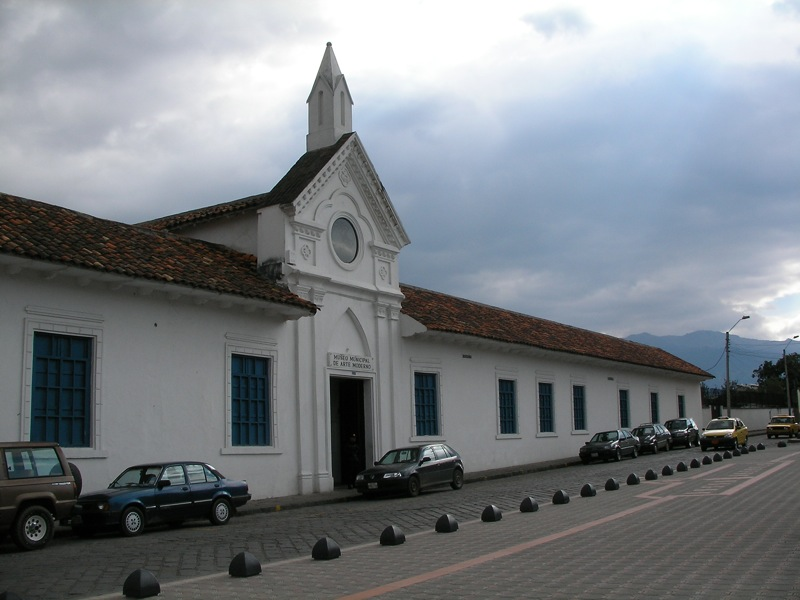 Museum of Modern Ar in Cuenca, Ecuador.